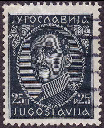 Postage stamp of Yugoslavia, king Alexander I Karageorge, 25 para, 1932.